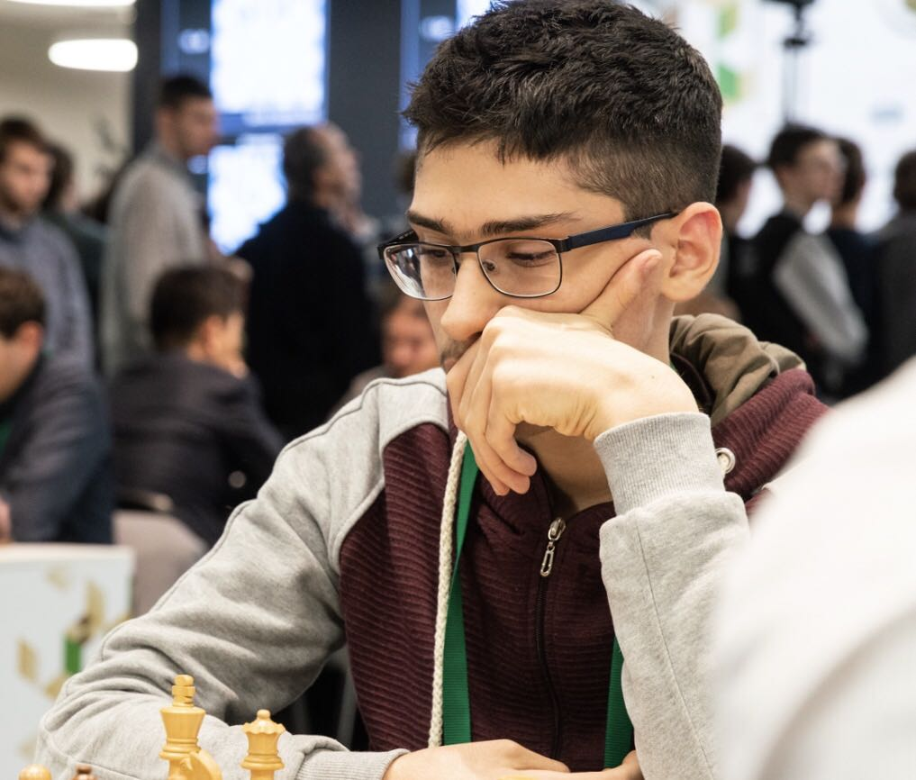 Alireza Firouzja on the World Rapid and Blitz 2018